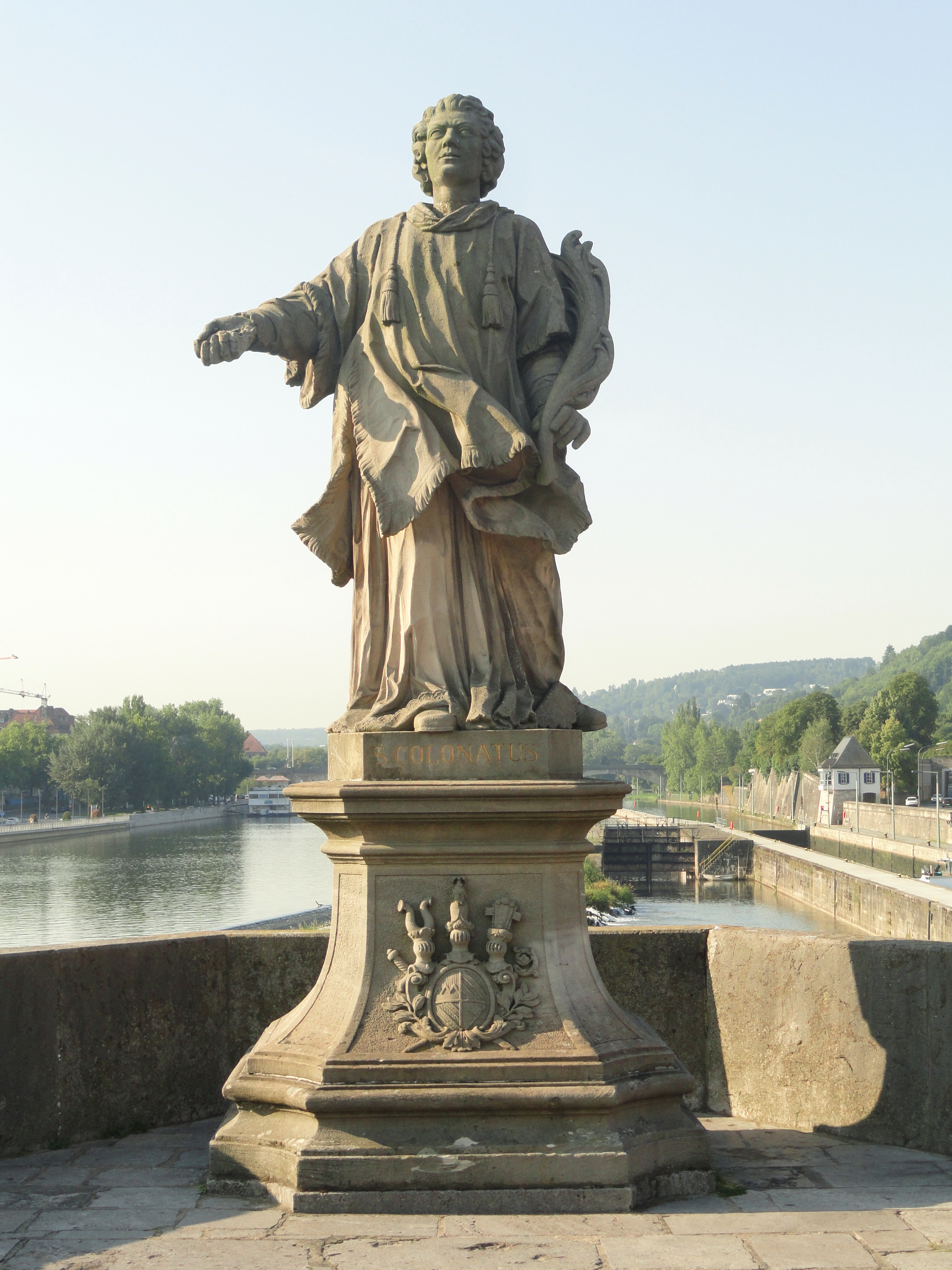 Statue on the Alte Mainbrücke in Würzburg, Germany.